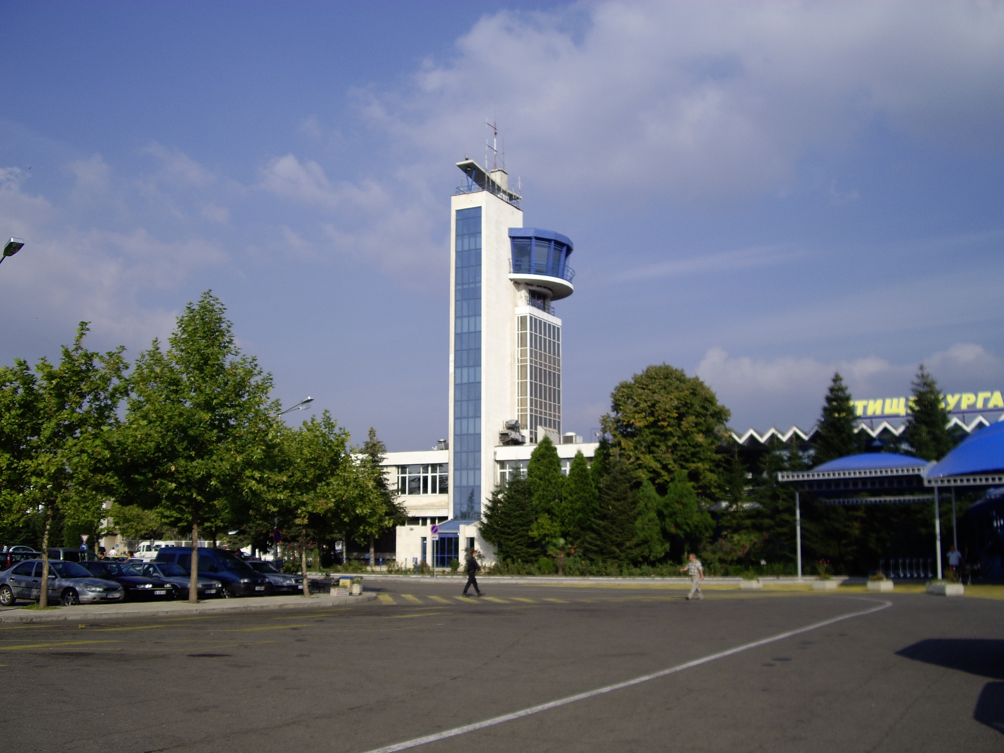 Image of the Burgas Airport control tower